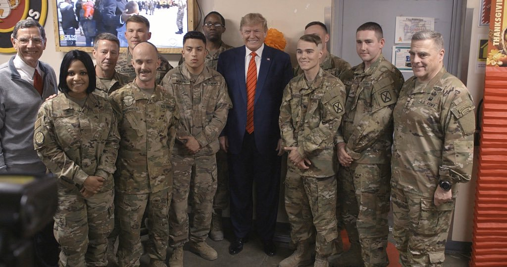 .@POTUS @realDonaldTrump: “We have the most powerful military in the world by far...This evening, as millions of families sit down at their dinner tables back home, they'll say a prayer for the men and women serving in our nation in Afghanistan and deployed all around the globe.“